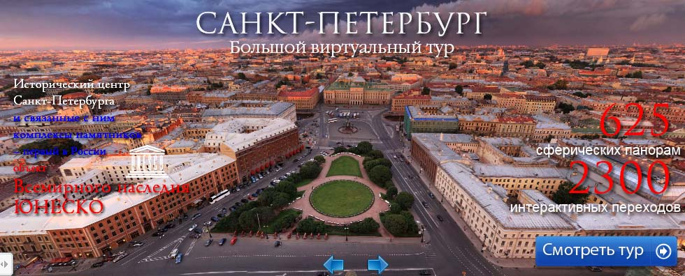 Russia. Saint Petersburg. The Grand Virtual Tour